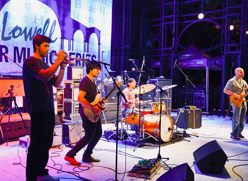 Cold Engines performing live 2018